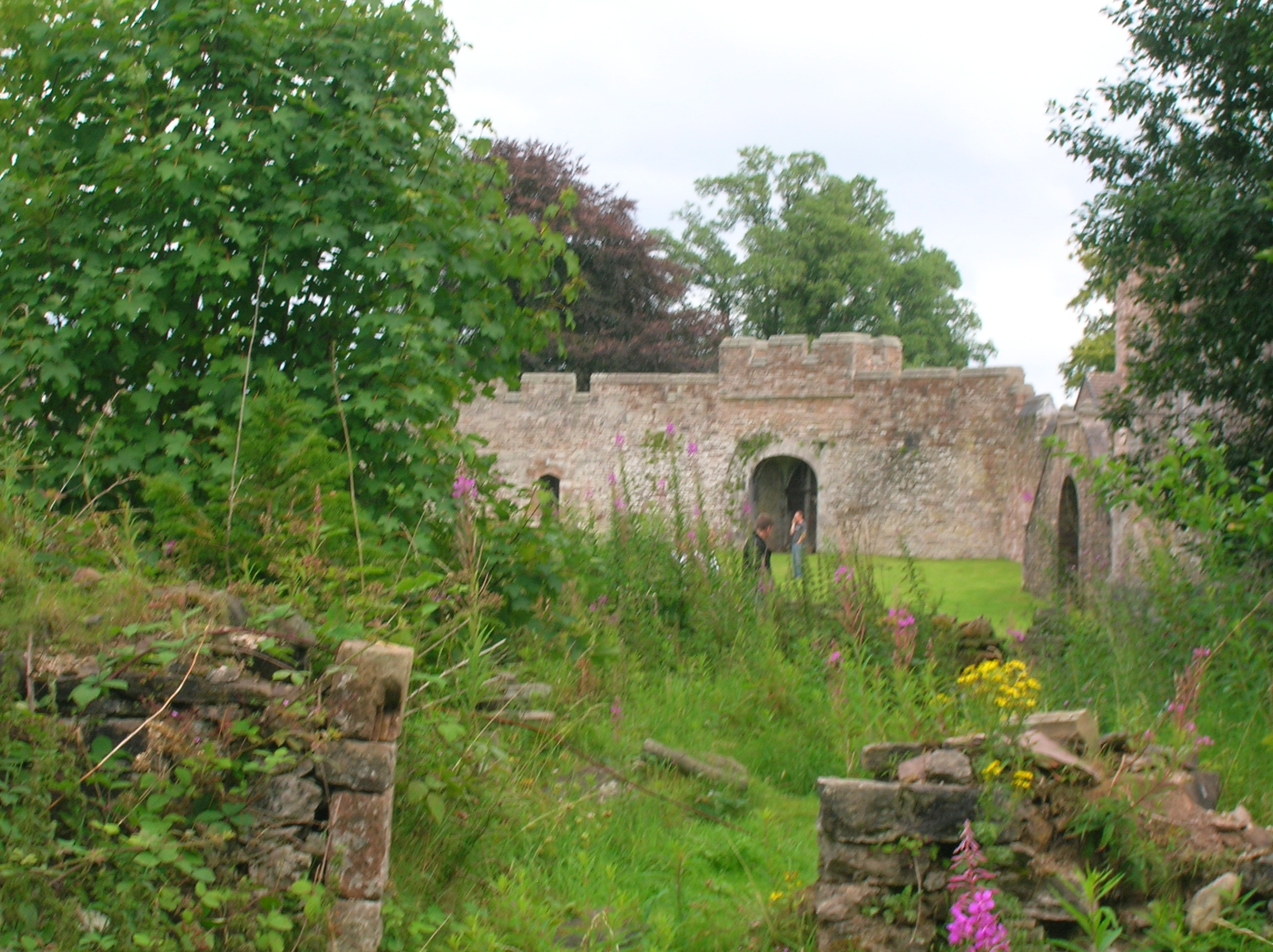 Brougham Hall. Penrith, Cumbria. A view of the courtyard from the terrace.